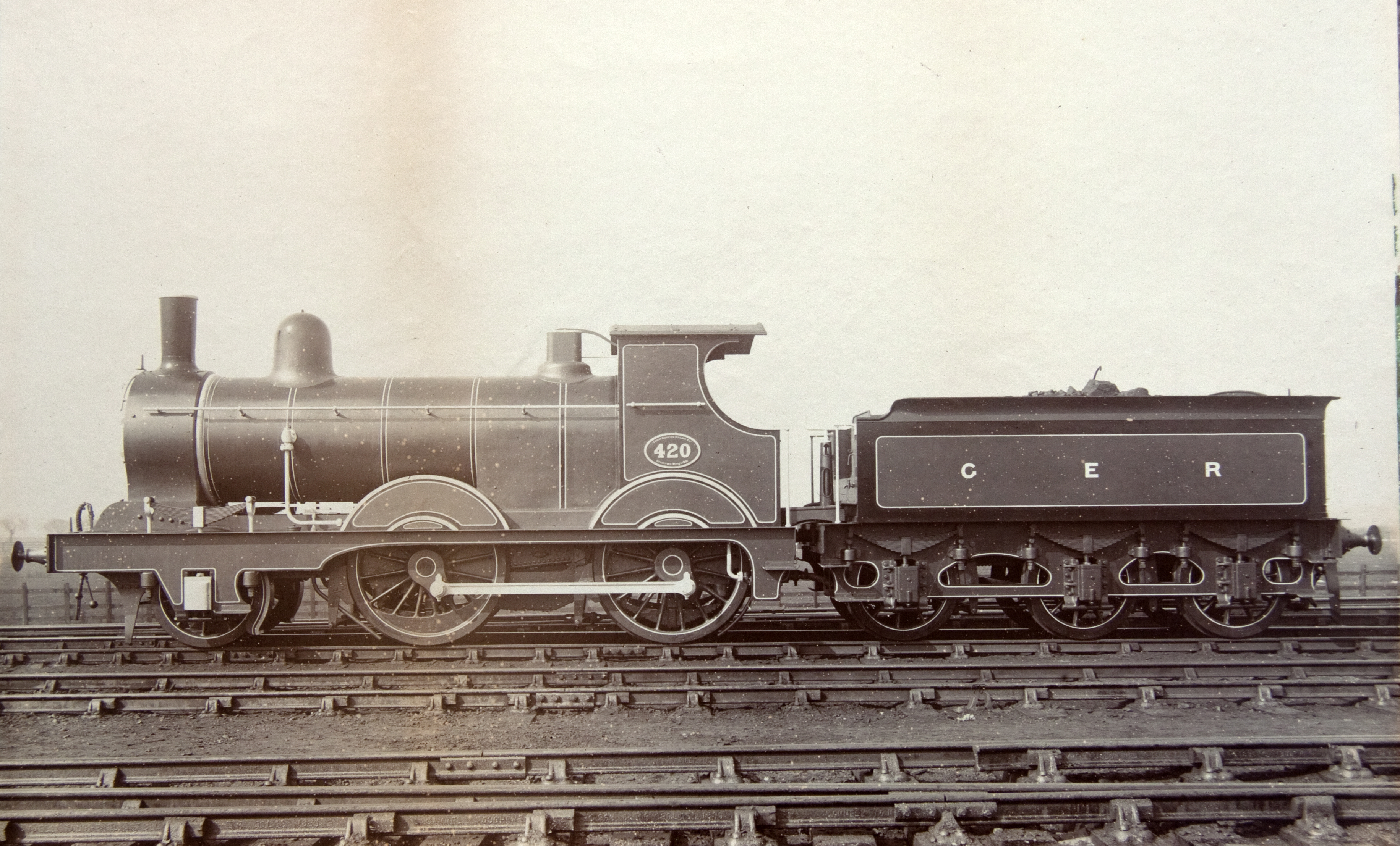 The Holden E4 (GER T26) 2-4-0 Locomotive 420 James Holden designed his T26 2-4-0s (LNER E4) in 1891, to meet the Great Eastern Railway's (GER) need for a mixed traffic locomotive. Intended to haul the increasing agricultural traffic, it also had to haul cross-country and slow main line passenger services. One E4 has survived and is a part of the National Collection. No. 490 (BR No. 62785) is currently displayed at Bressingham Steam Museum. This photo was taken from an old original photo we came across while helping to clear the house of a deceased friend. I have uploaded it to Flickr in the hope that it might be interesting to steam enthusiasts.